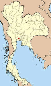 Map of Thailand highlighting Nonthaburi province